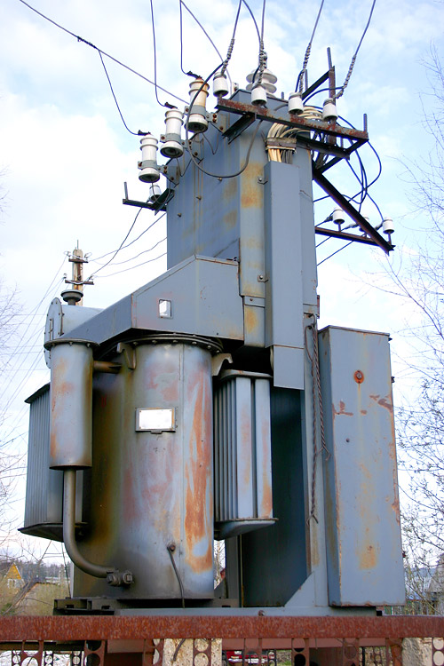 Object: Russian aerial electric substation Description: Author: Panther Created: Photo taken in the spring of 2004 Source: uploaded by author